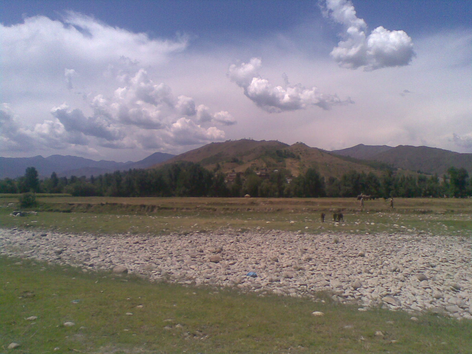 Aligrama site This is a photo of a monument in Pakistan identified as the KPK-74